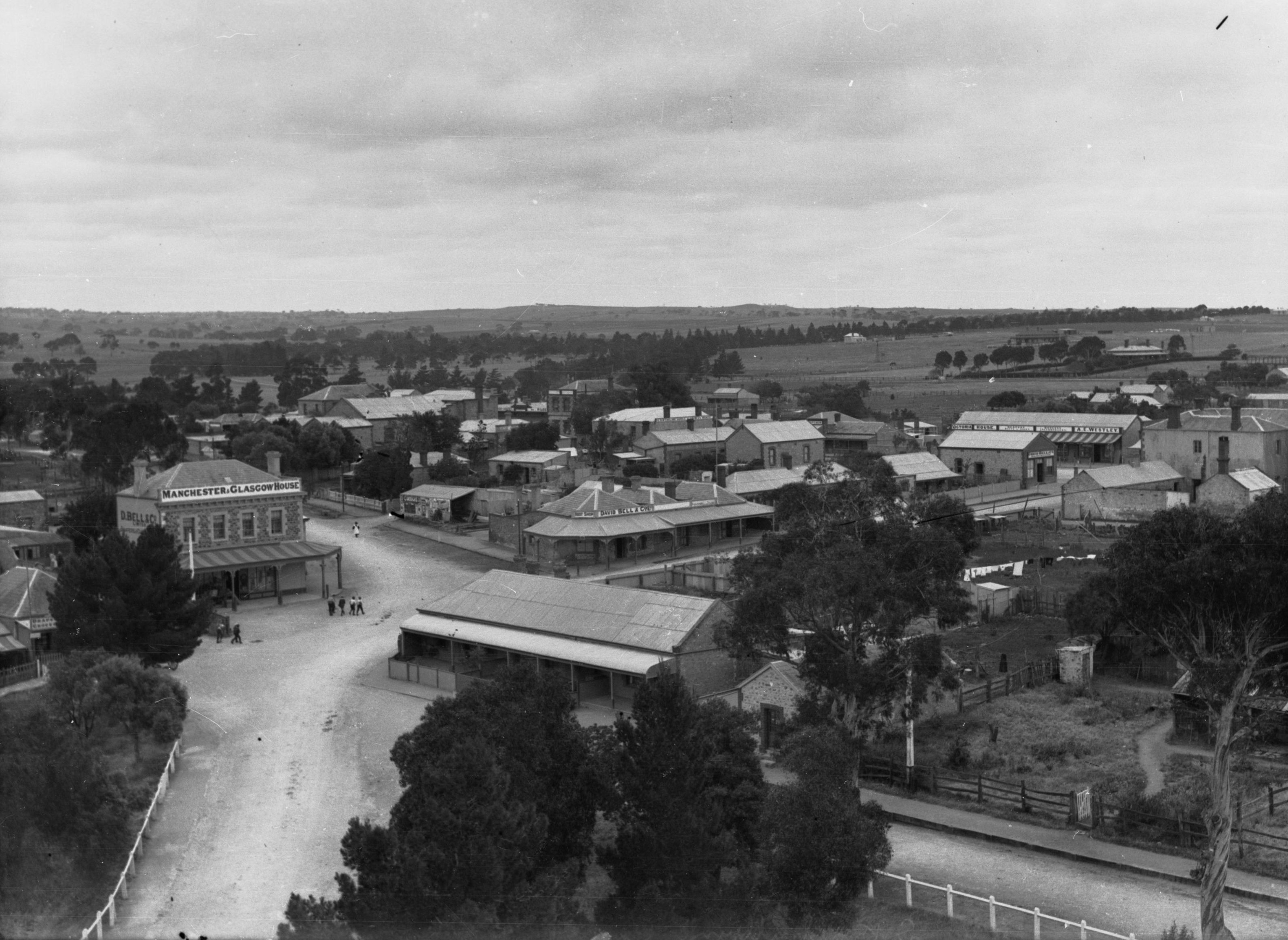 This image shows Sunter Street running in a north-easterly direction and crossing Swale Street. David Bell's Manchester & Glasgow House is on the north-western corner of the intersection with Swale Street. Bell also owned the Boot Shop on the north-east corner. Bell was a local businessmen and Mayor of Strathalbyn from 1887 to 1889. The photograph was published in the 'Critic' in 1906. It was not taken in the 1920s as originally cliamed. Title and date amended to reflect this information.